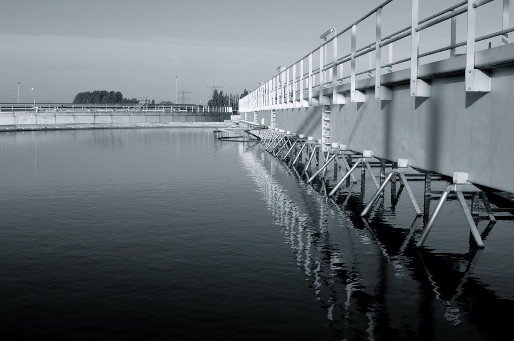 Sewage Treatment Plant near The Hague, The Netherlands.